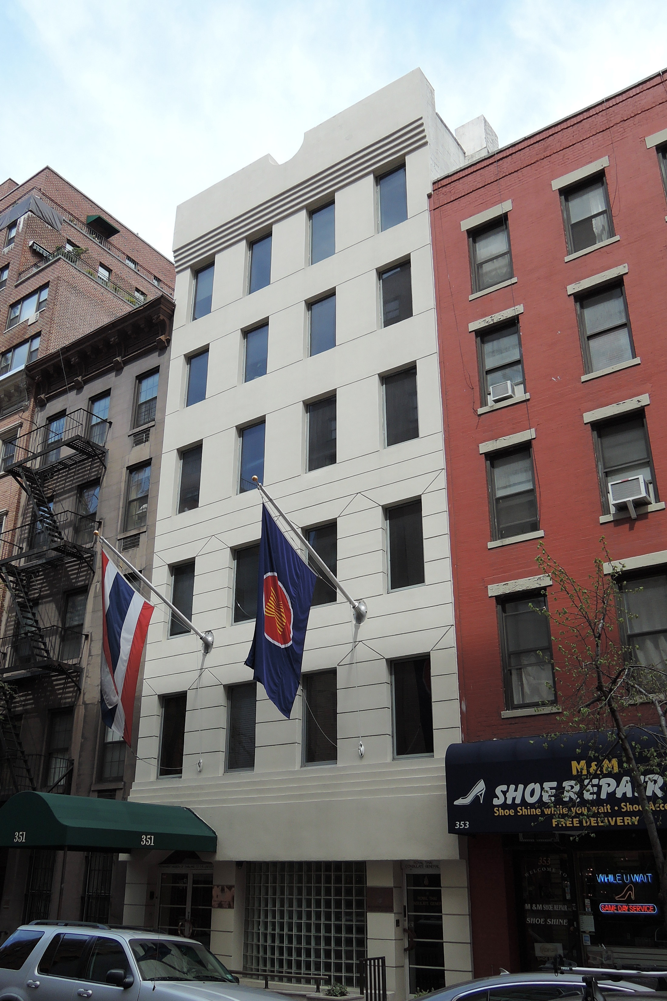 Looking north at Thai Consulate on a partly sunny midday.